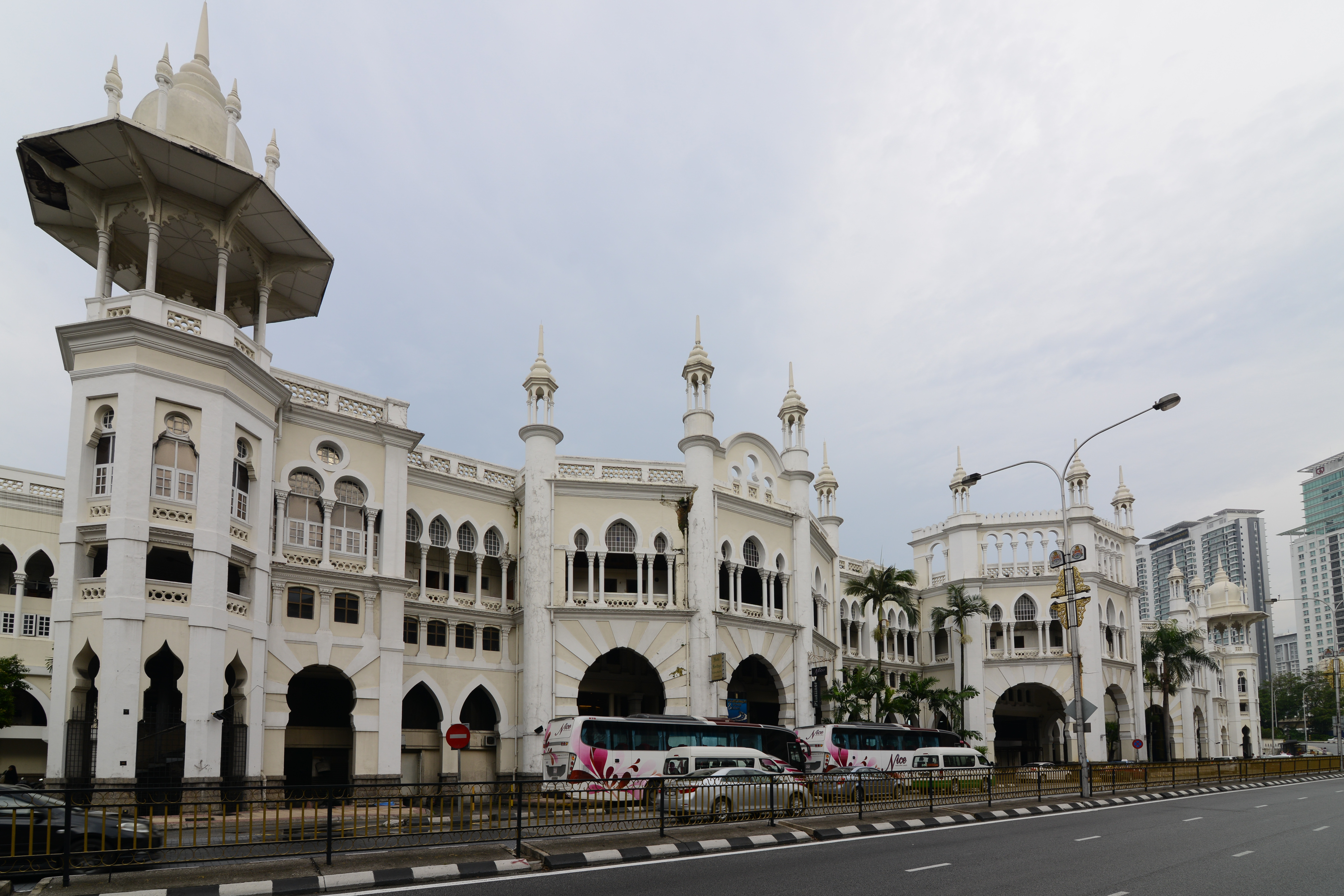 Kuala Lumpur Railway Station is a railway station located in Kuala Lumpur, Malaysia. Completed in 1910 to replace an older station on the same site, the station was Kuala Lumpur's railway hub in the city for the Federated Malay States Railways and Malayan Railway (Malay: Keretapi Tanah Melayu), before Kuala Lumpur Sentral assumed much of its role in 2001. The station is notable for its architecture, adopting a mixture of Eastern and Western designs. The station is located along a road named Jalan Sultan Hishamuddin, previously known as Victory Avenue, which in turn was part of Damansara Road. The station is located closely to the similarly designed Railway Administration Building, as well as the National Mosque and Dayabumi Complex. The Pasar Seni LRT station is located 400 metres away, across the Klang River.